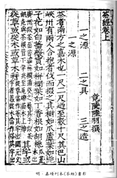 Lu Yu The Book of Tea